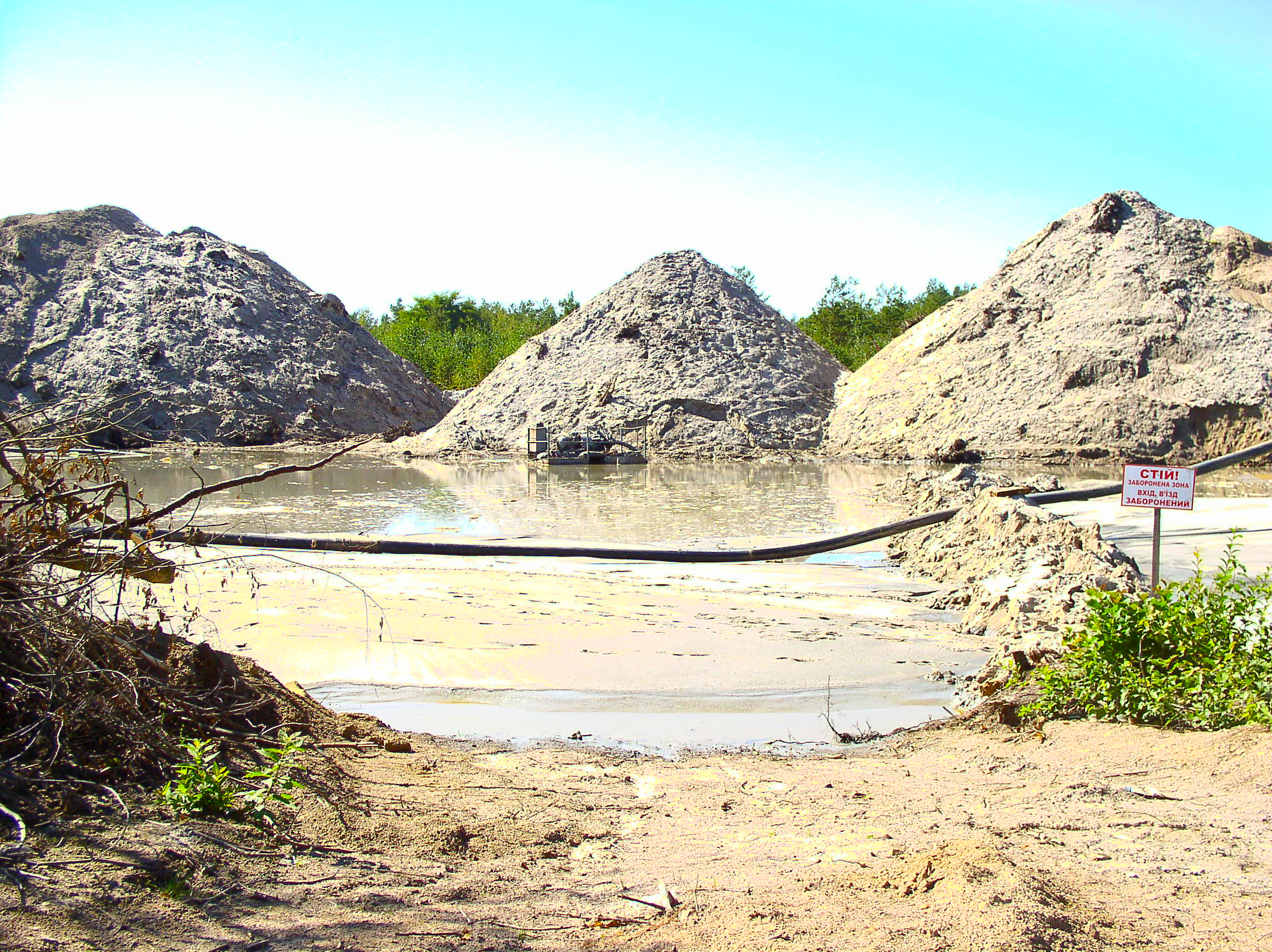 Ukrainian amber. Amber deposit in Klesovo